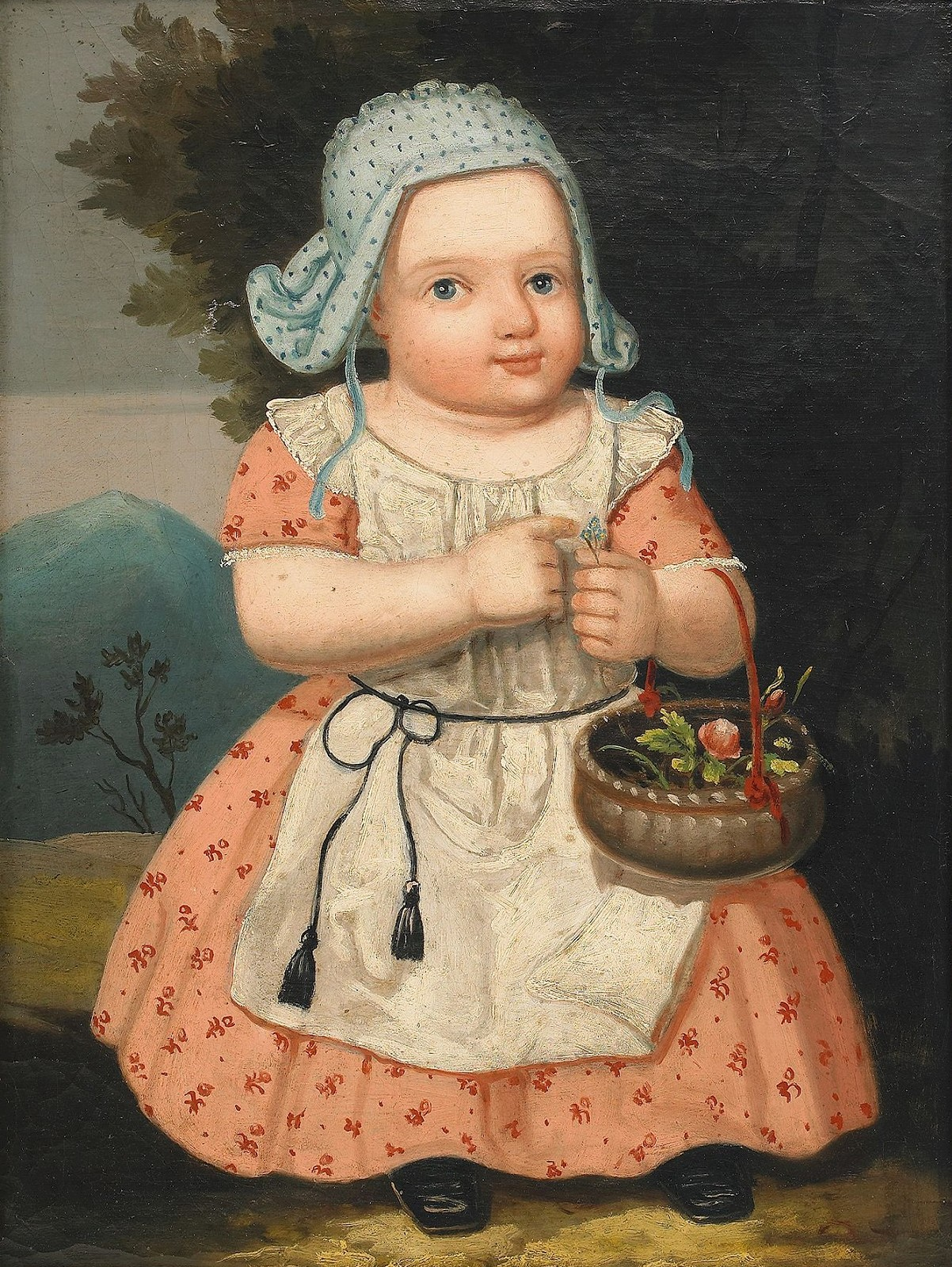 Portrait of the artist' daughter